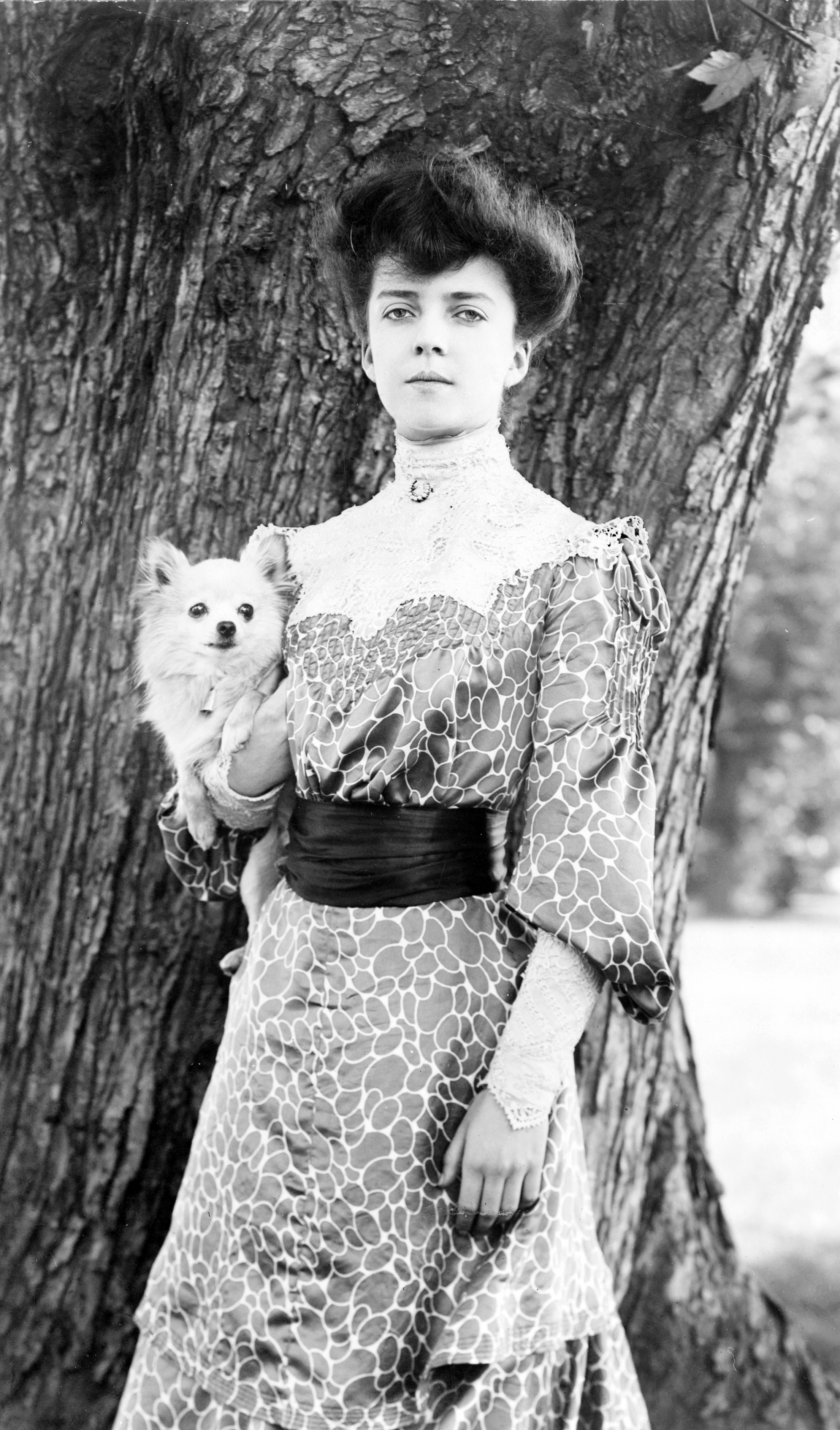 Photo of Alice Roosevelt, daughter of US president Theodore Roosevelt taken in 1902 with her pet dog, Leo. She was also given the dog Manchu, a Pekingese, presented her by The Empress Dowager Cixi. Alice, with her beauty, wit and devil-may-care attitude was the center of much media attention in the early days of the "TR" Roosevelt Administration Alice Roosevelt, taken about 1902. A striking beauty, her outspokenness and antics won the hearts of the America people who nicknamed her "Princess Alice"